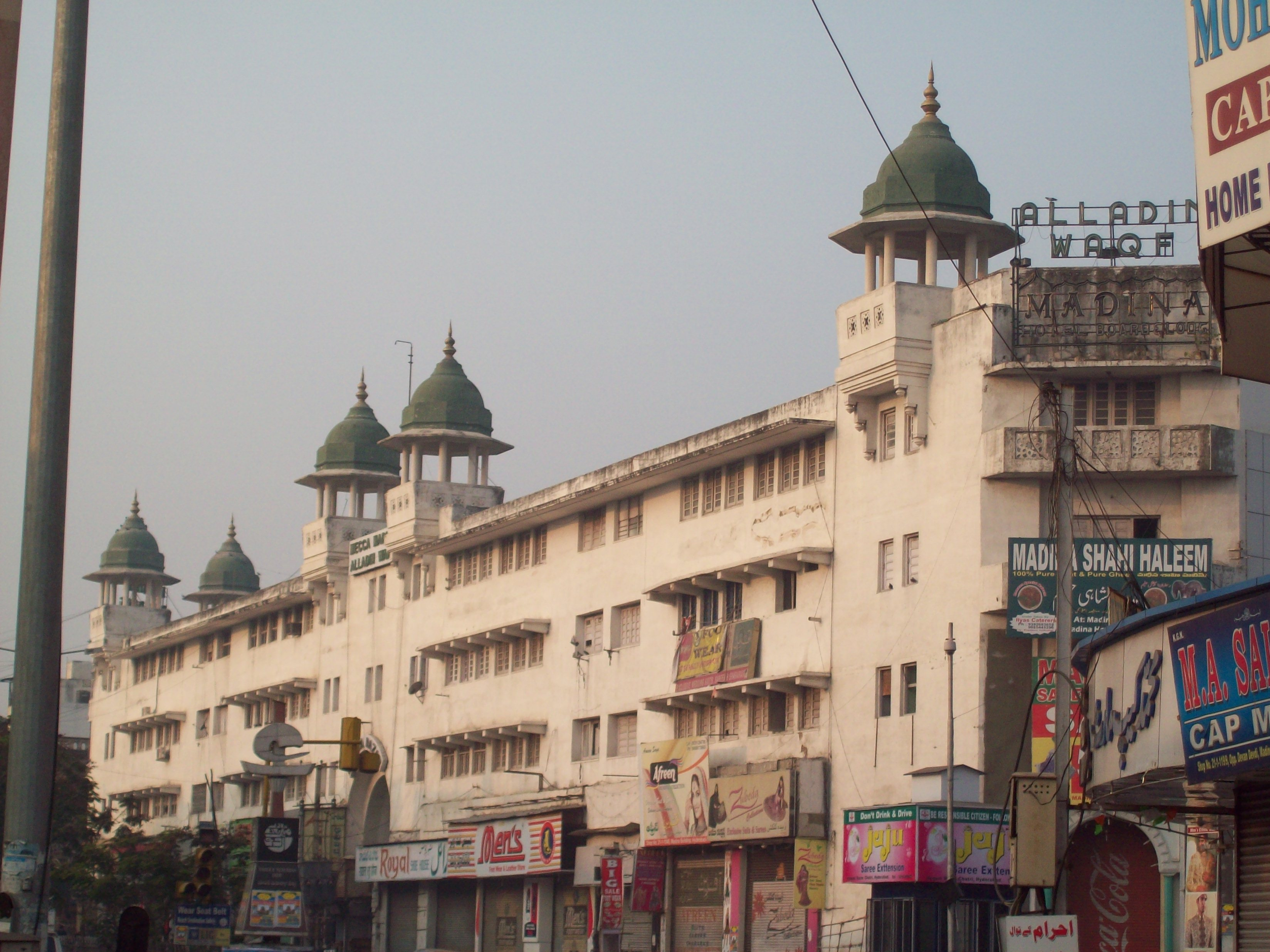 Hotel Madina, a landmark near Charminar, close to Naya Pul, Hyderabad.